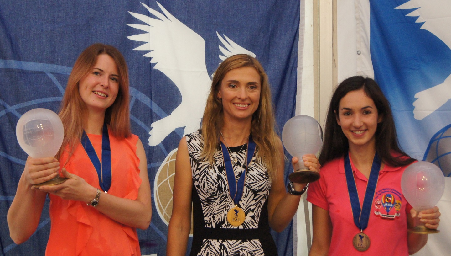 Agnė Simonavičiūtė, Beata Choma, Elisabeth Kindermann, balloon Europeans 2017 in Leszno, Poland (from left to right)